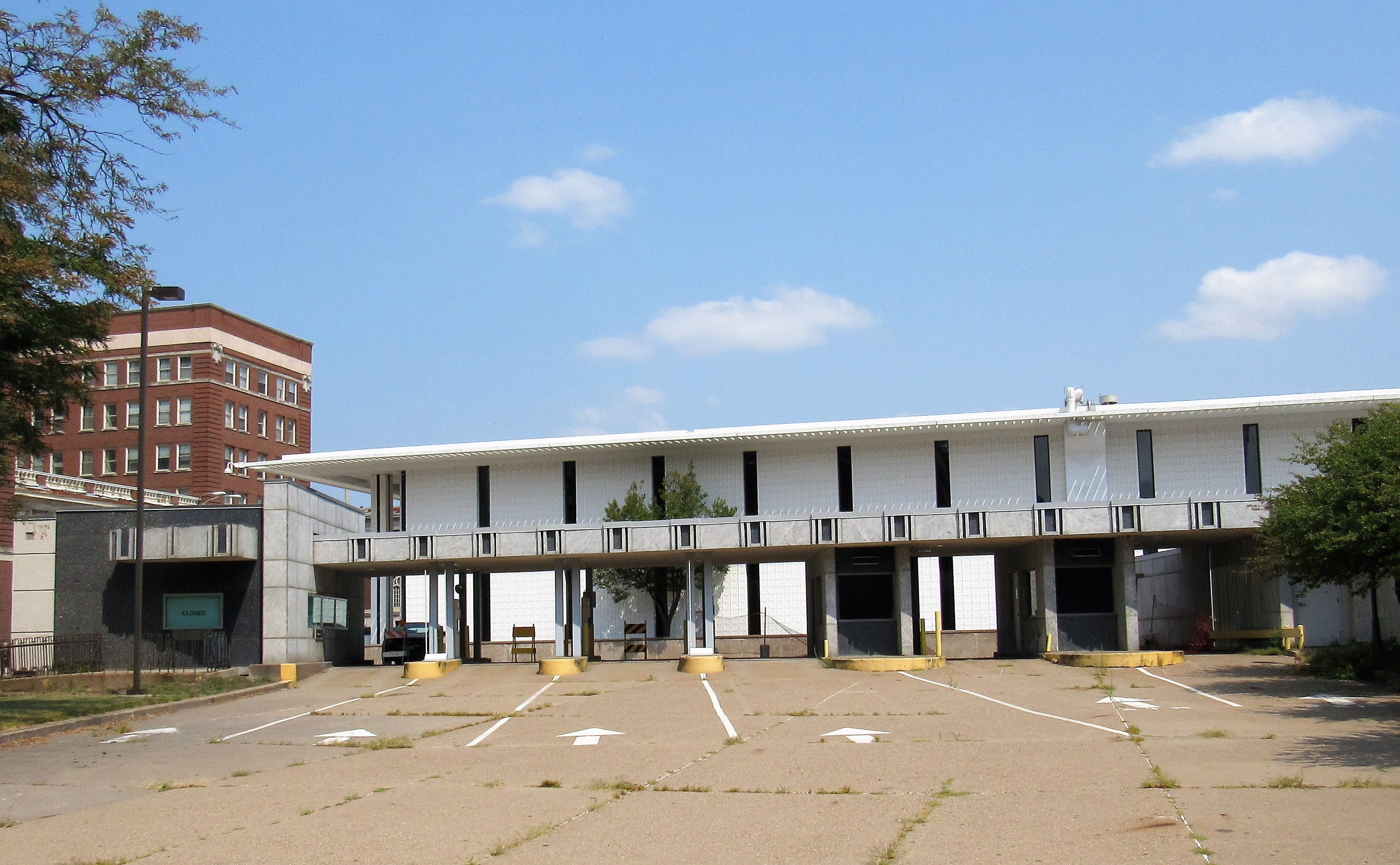 The former auto bank for Davenport Bank and Trust in Davenport, Iowa.